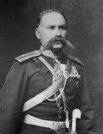 Novruzov, Kerim bey.